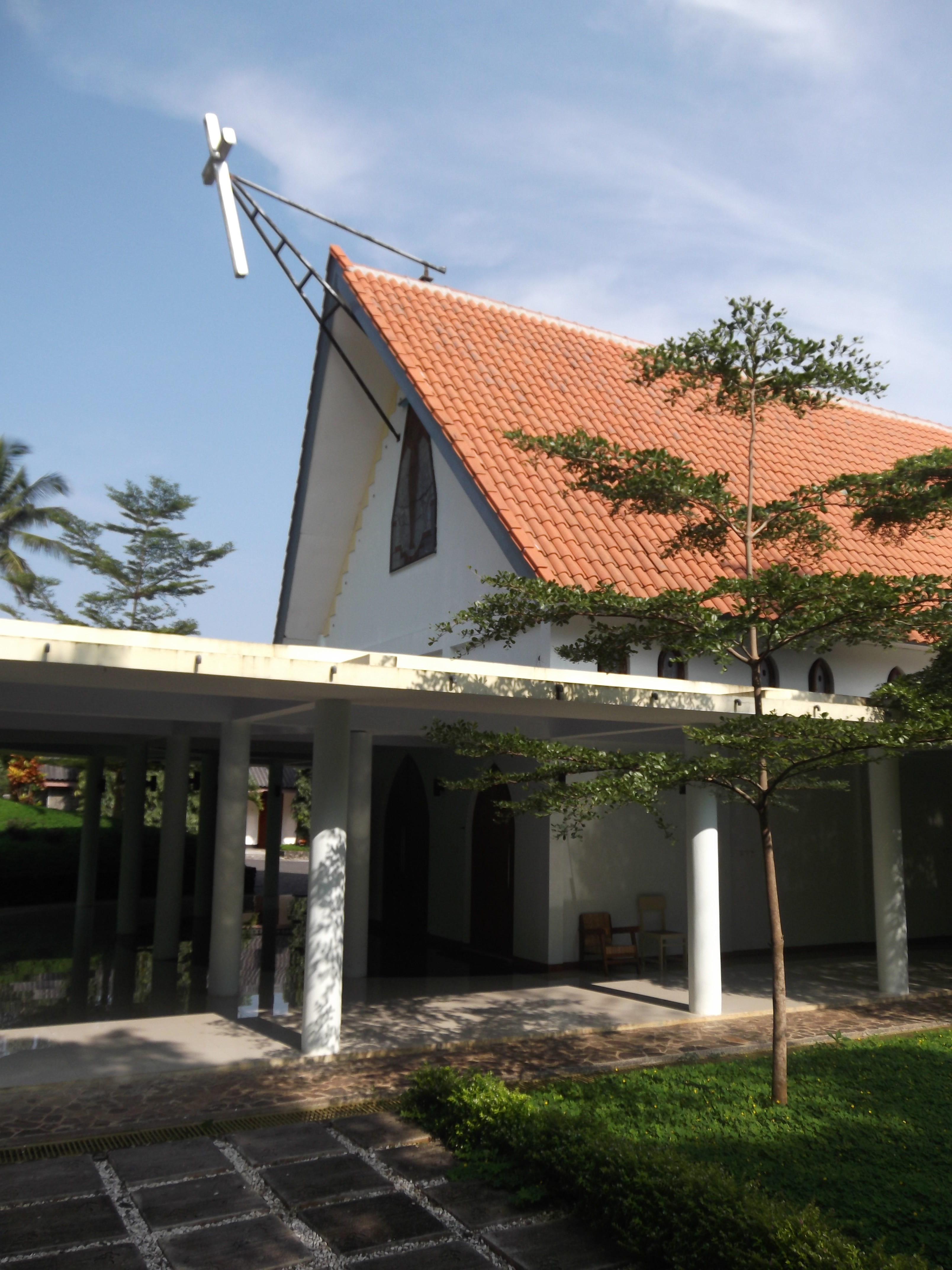 the Church of the Monastery of Saint Mary Rawaseneng (right side view), Temanggung, Indonesia.